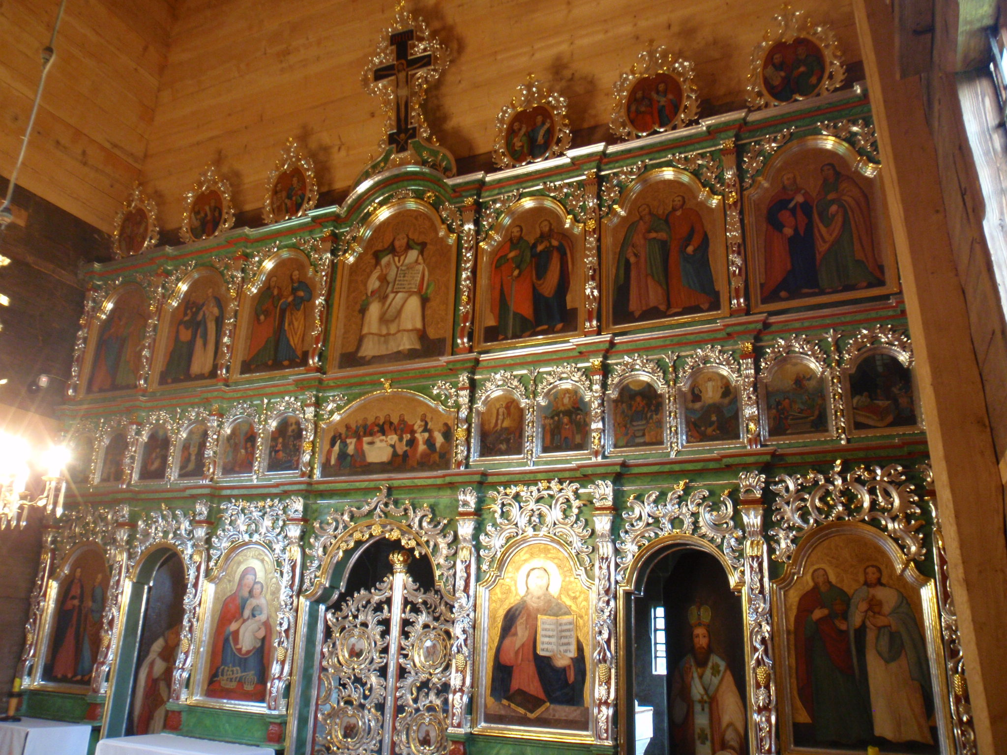 Saints Cosmas and Damian church in Krempna